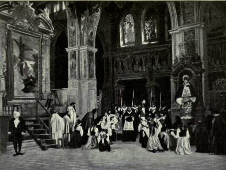 Illustration of Floria Tosca and Mario Cavaradossi in Act I of the opera Tosca